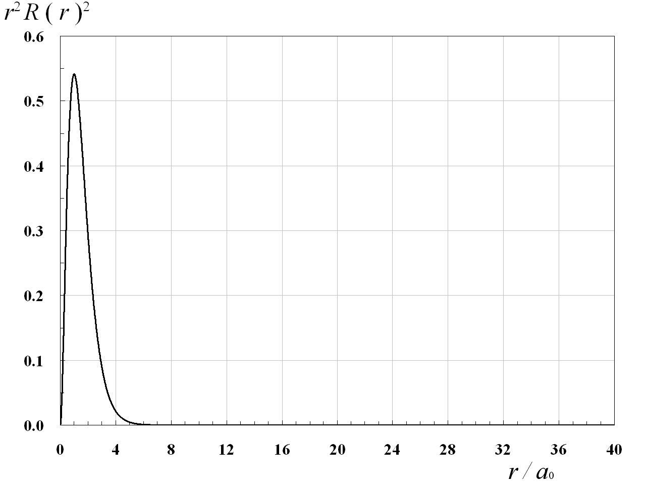 Radial distribution in 1s orbital